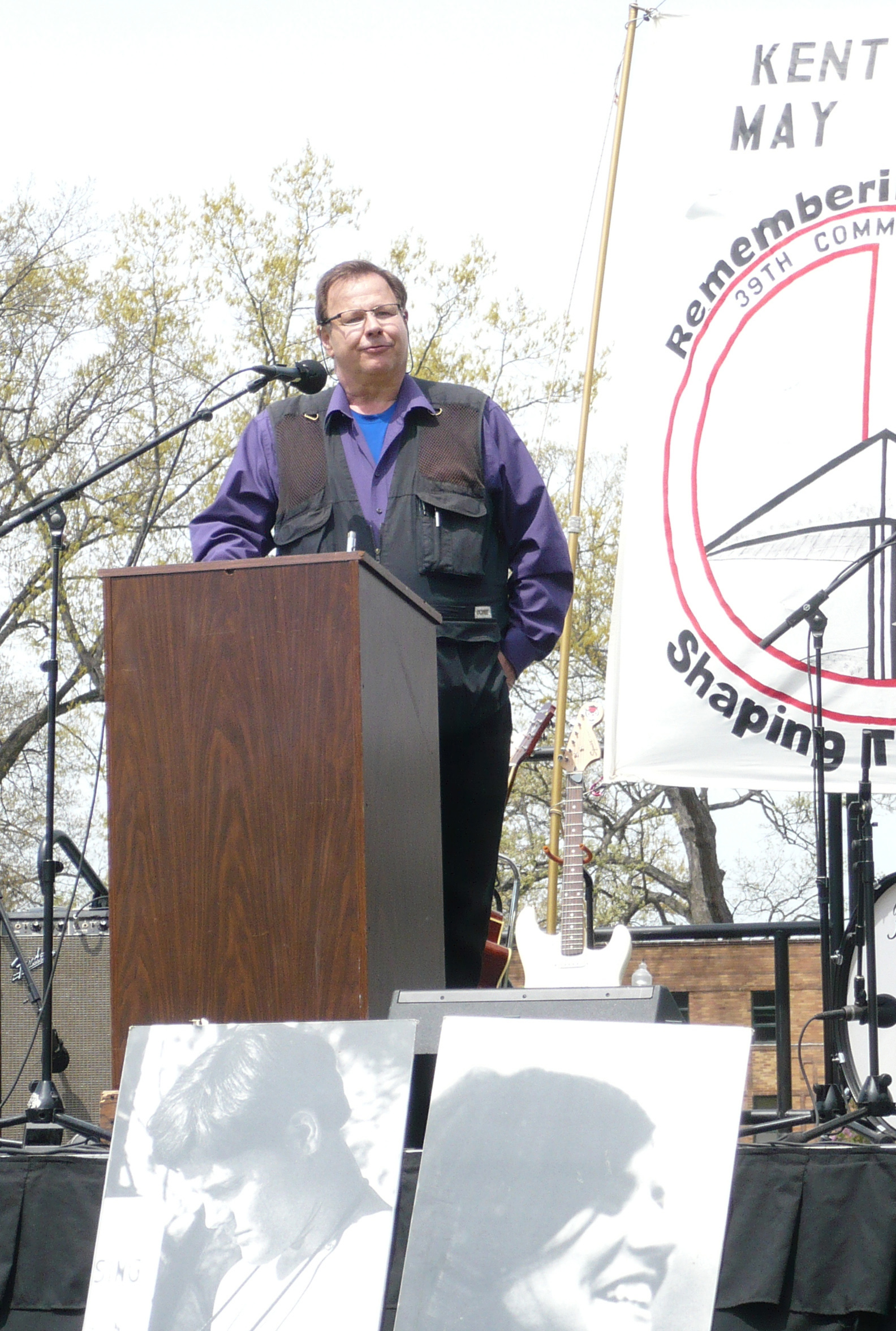 John Filo speaking at the 39th annual May 4 Commemoration at Kent State University in Kent, United States. The event, which was organized by the May 4 Task Force, was held on the university's Commons.